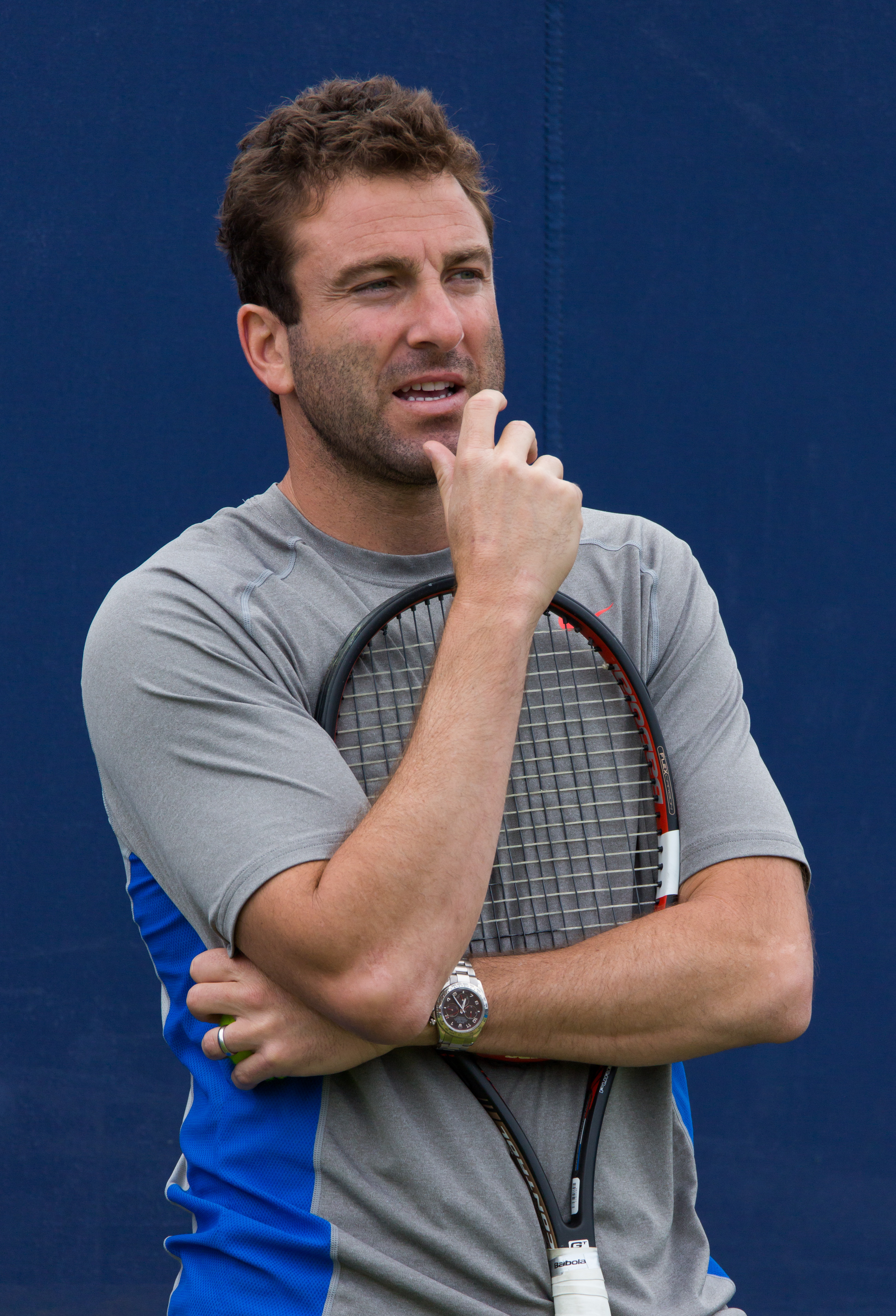 Justin Gimelstob coaching John Isner during practice at the Queens Club Aegon Championships in London, England.